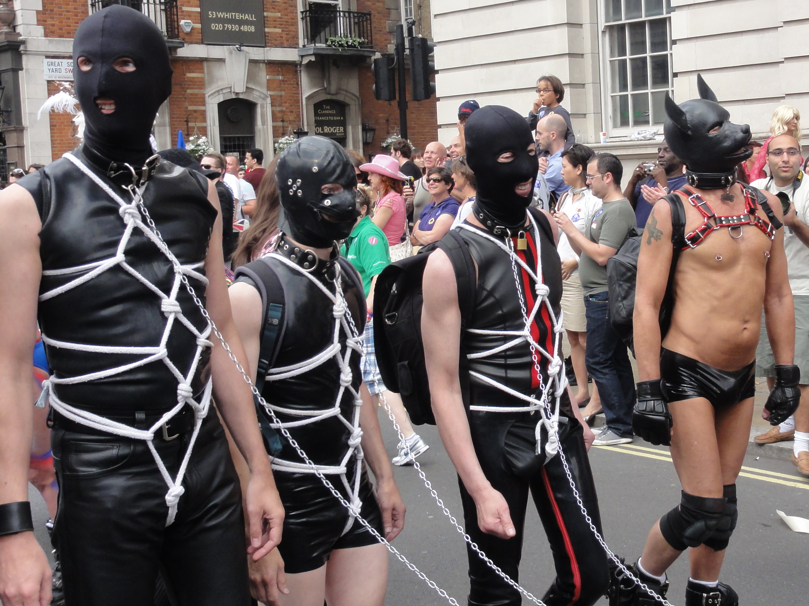 Fetishists marching (or being led by the chain!) down Whitehall as part of Pride London 2011.